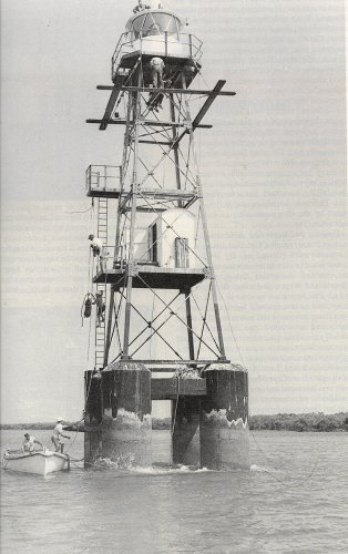 East Vernon Light, historic view